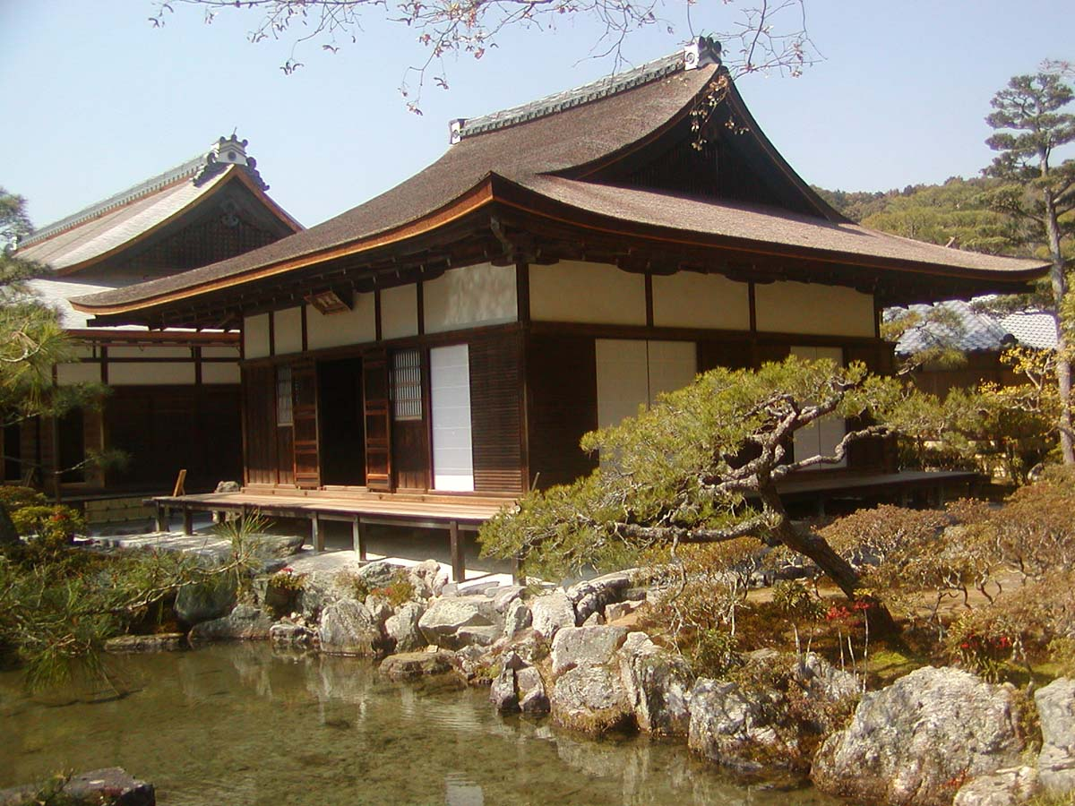 Photographer:User:Makimoto Title: Togu_do